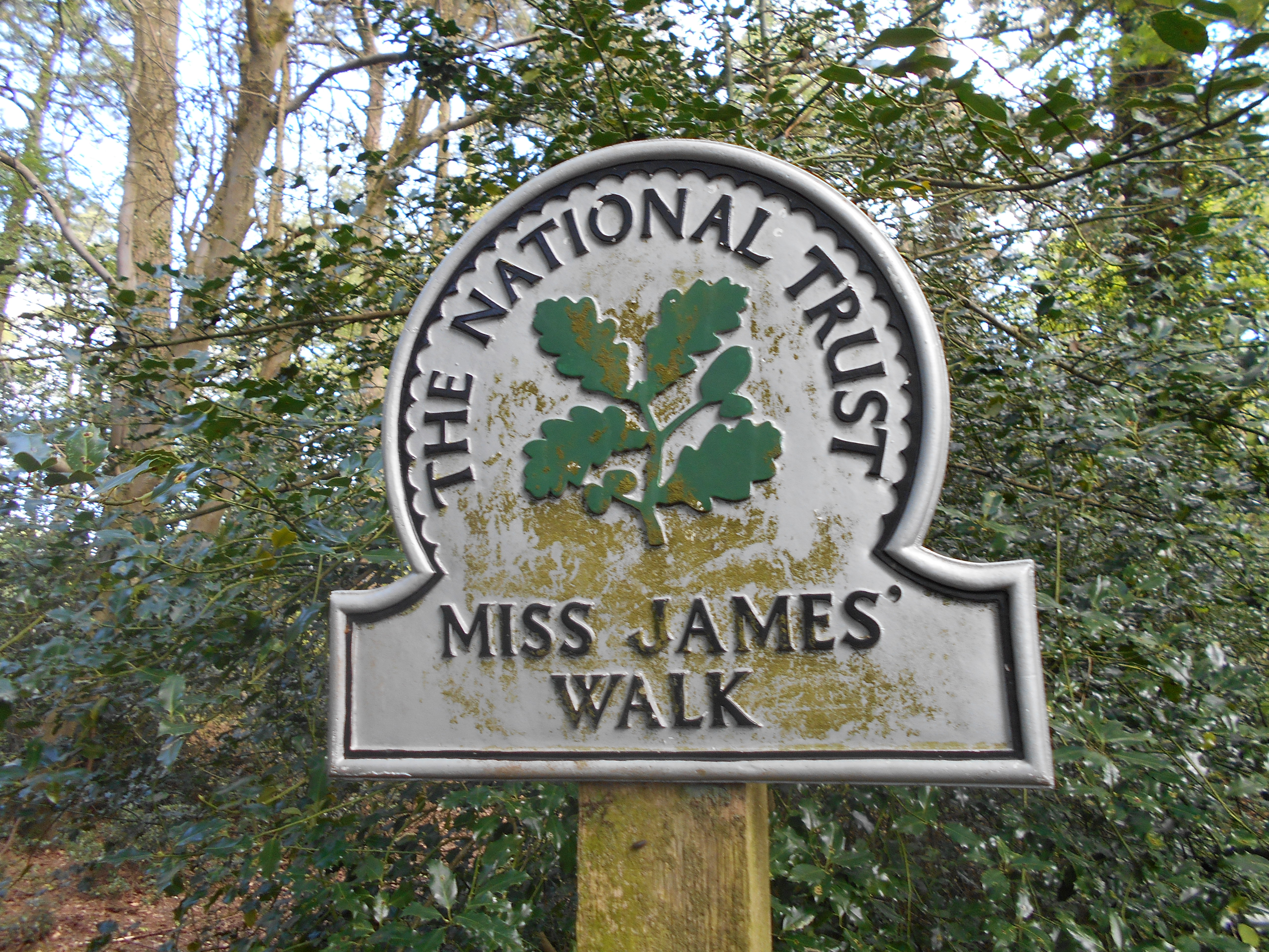 Miss James' Walk National Trust sign, Hindhead, Surrey, England.